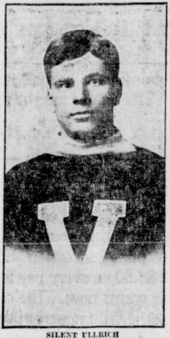 Canadian ice hockey player Jack Ulrich while a member of the Vancouver Millionaires in 1912.